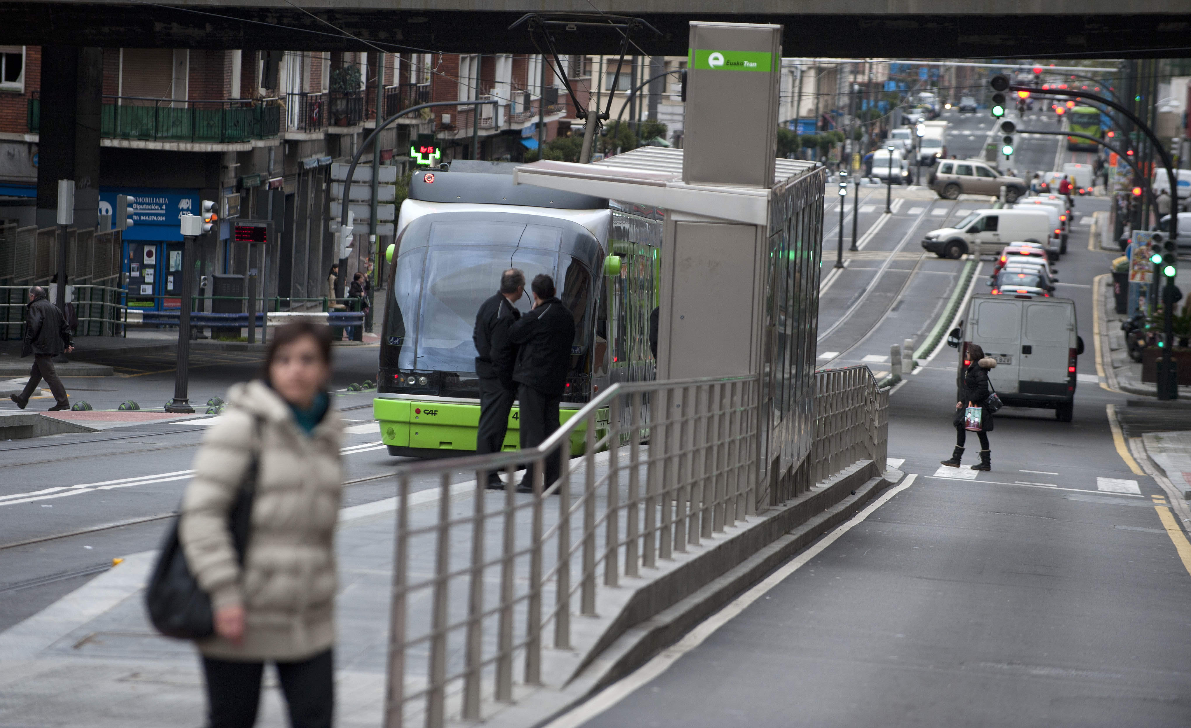 Euskotren Tranbia Basurto station, Bilbao